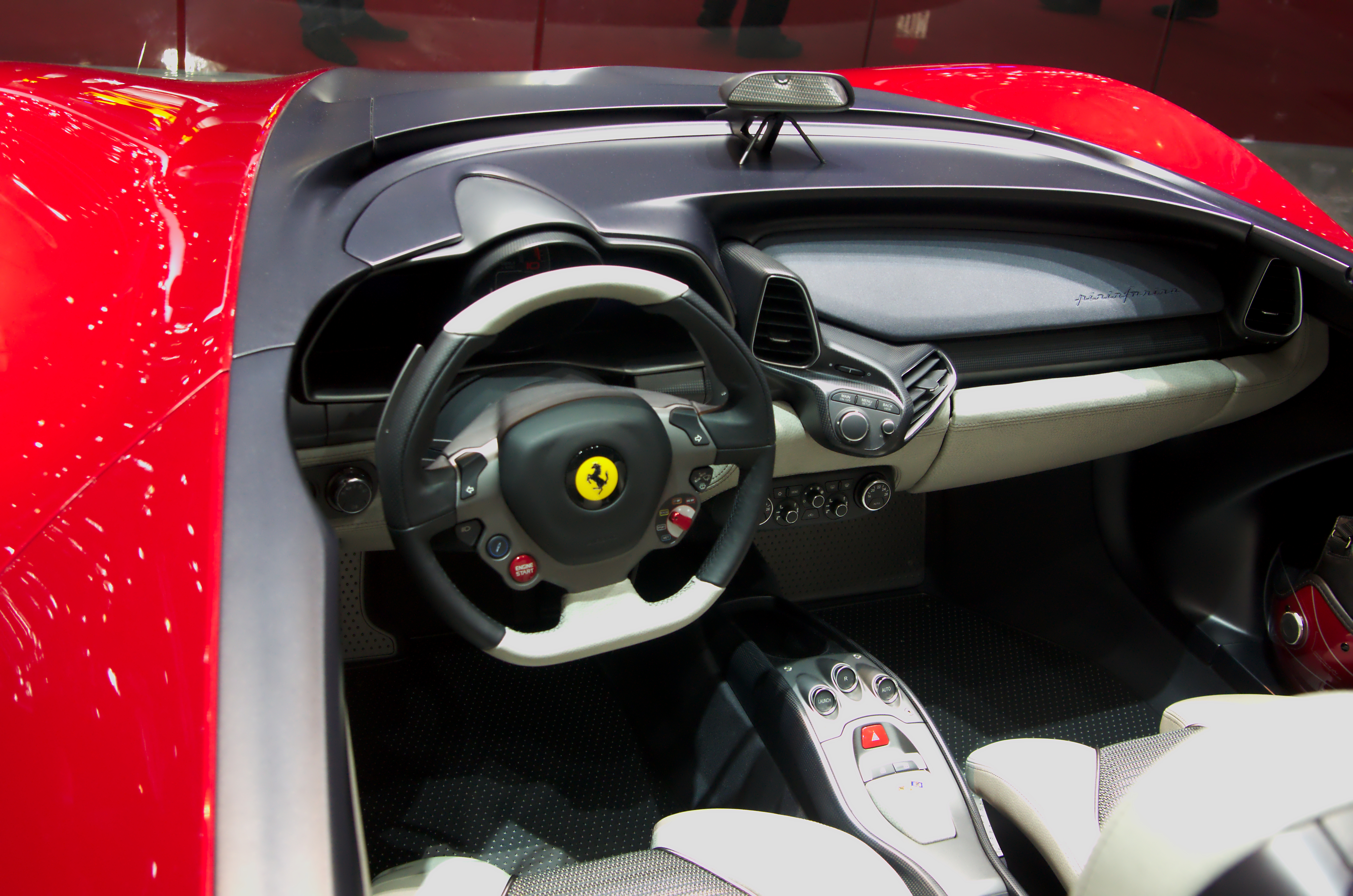 Geneva MotorShow 2013 - Pininfarina Sergio steering wheel